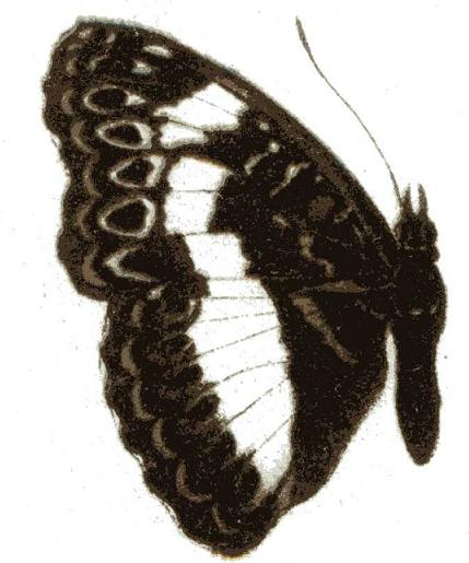 SeitzFaunaAfricana Euptera kinugnana Staudinger, 1891 Licensing This media file is in the public domain in the United States. This applies to U.S. works where the copyright has expired, often because its first publication occurred prior to January 1, 1925, and if not then due to lack of notice or renewal. See this page for further explanation. This image might not be in the public domain outside of the United States; this especially applies in the countries and areas that do not apply the rule of the shorter term for US works, such as Canada, Mainland China (not Hong Kong or Macao), Germany, Mexico, and Switzerland. The creator and year of publication are essential information and must be provided. See Wikipedia:Public domain and Wikipedia:Copyrights for more details.